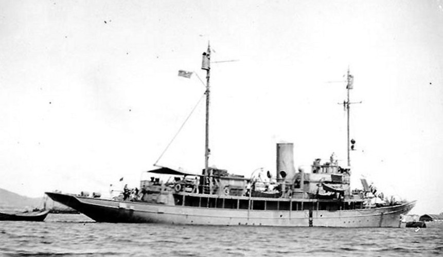 Photo #: NH 54570 USS Druid (SP-321) Moored in harbor, probably in European waters in 1918. Photographed by R.E. Wayne. U.S. Naval Historical Center Photograph.